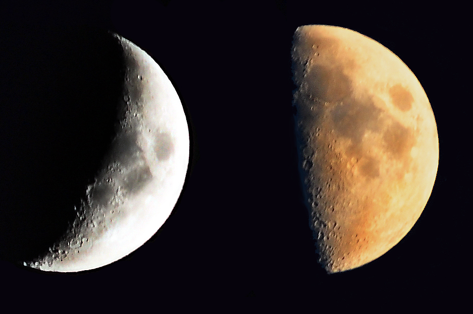 A Crescent Moon and a Half Moon in a collage